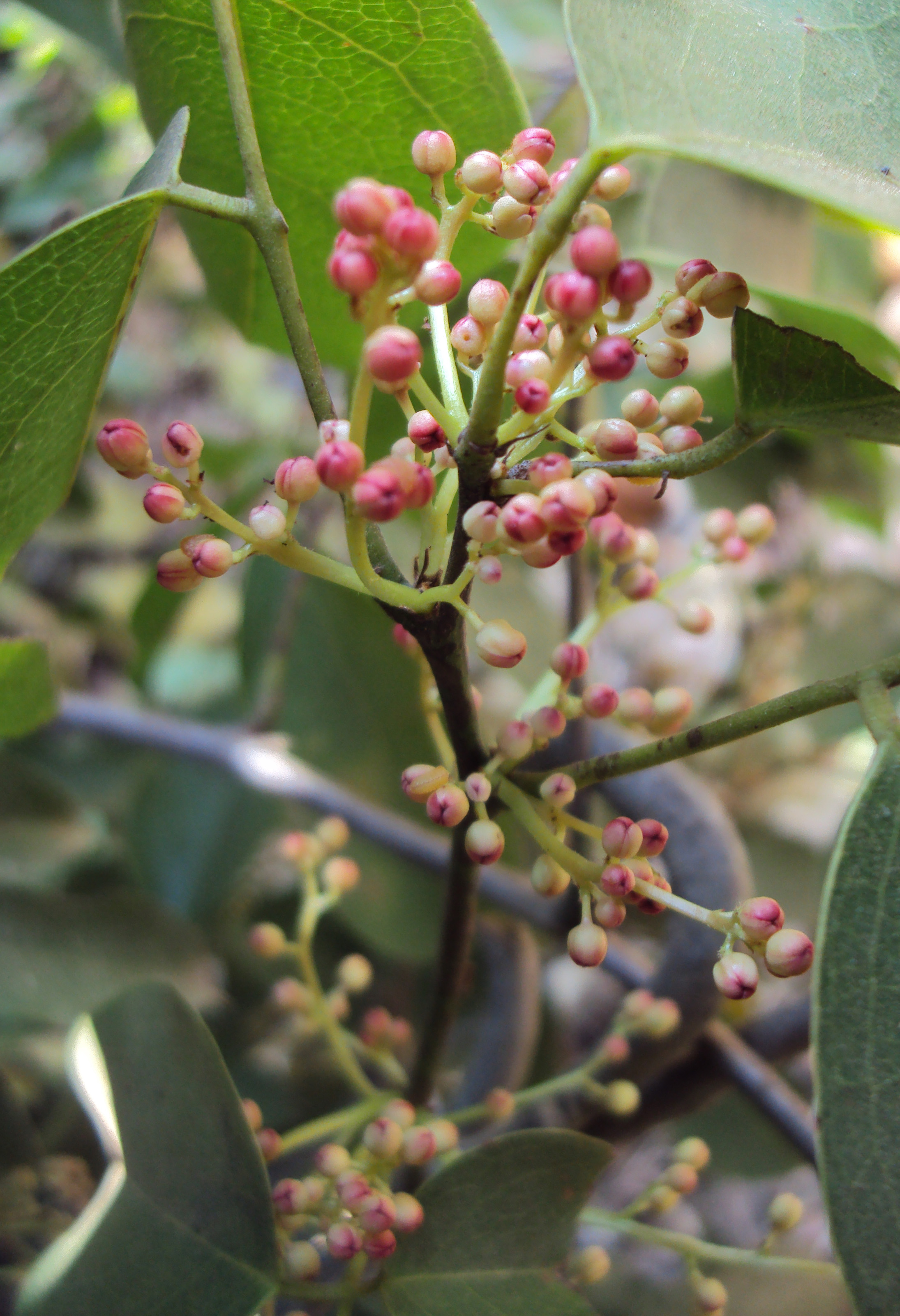 Connarus wightii